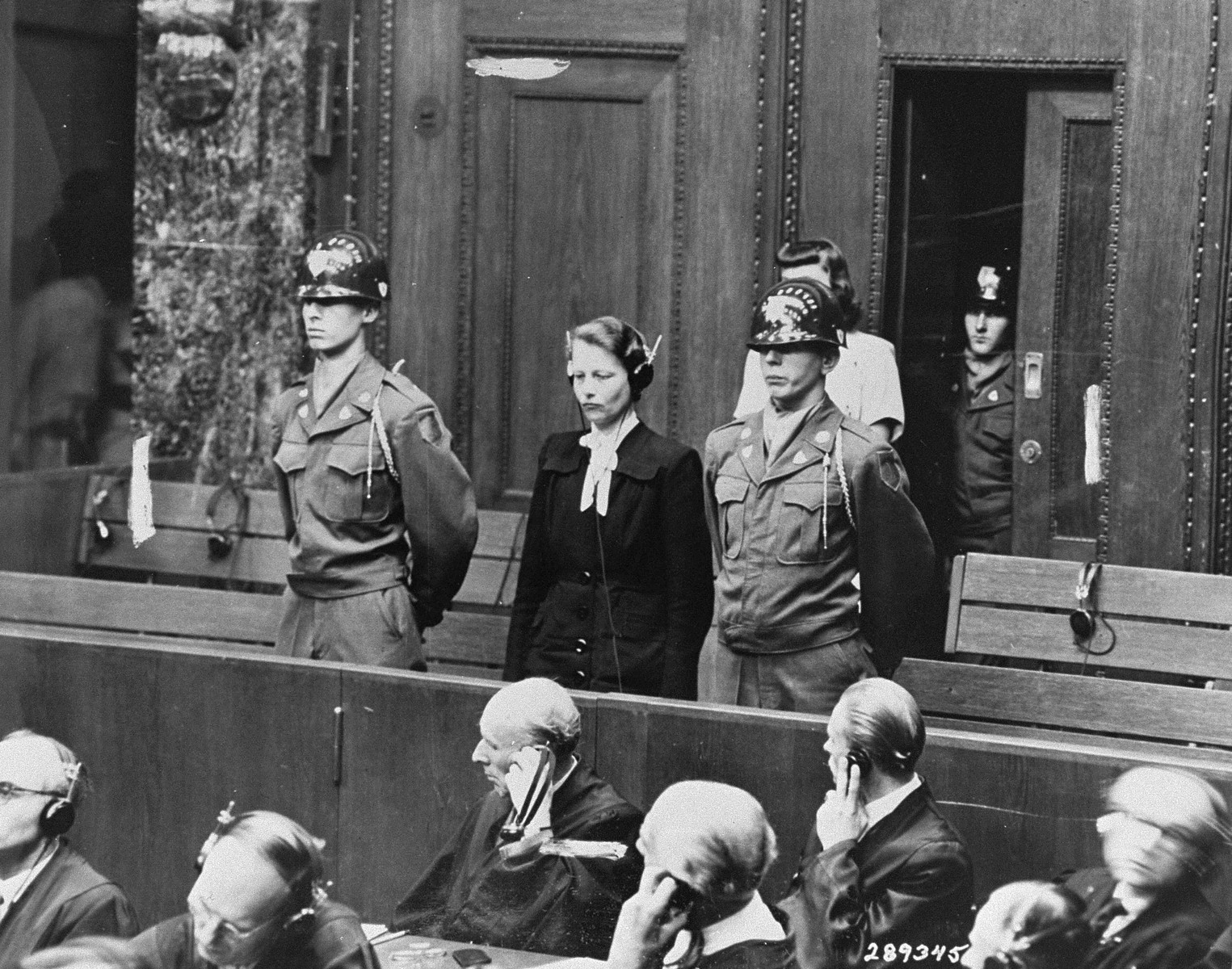 Defendant Herta Oberheuser stands up to receive her sentencing at the Doctors' Trial, Nuremberg 1947.